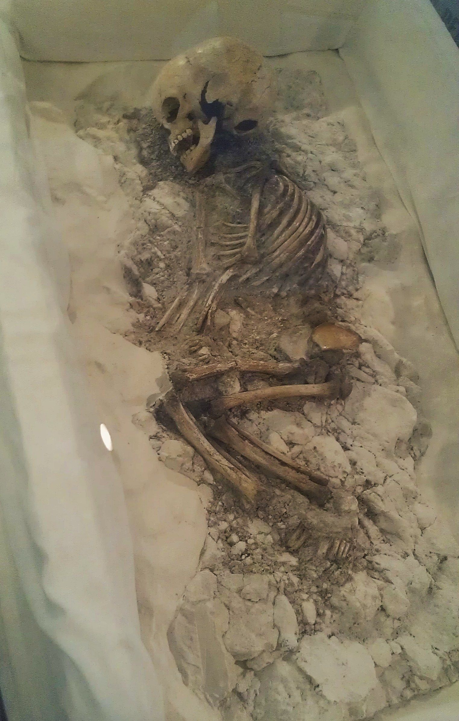 The controversial skeleton of a prehistoric child in the Keiller Museum, at Avebury, Wiltshire.